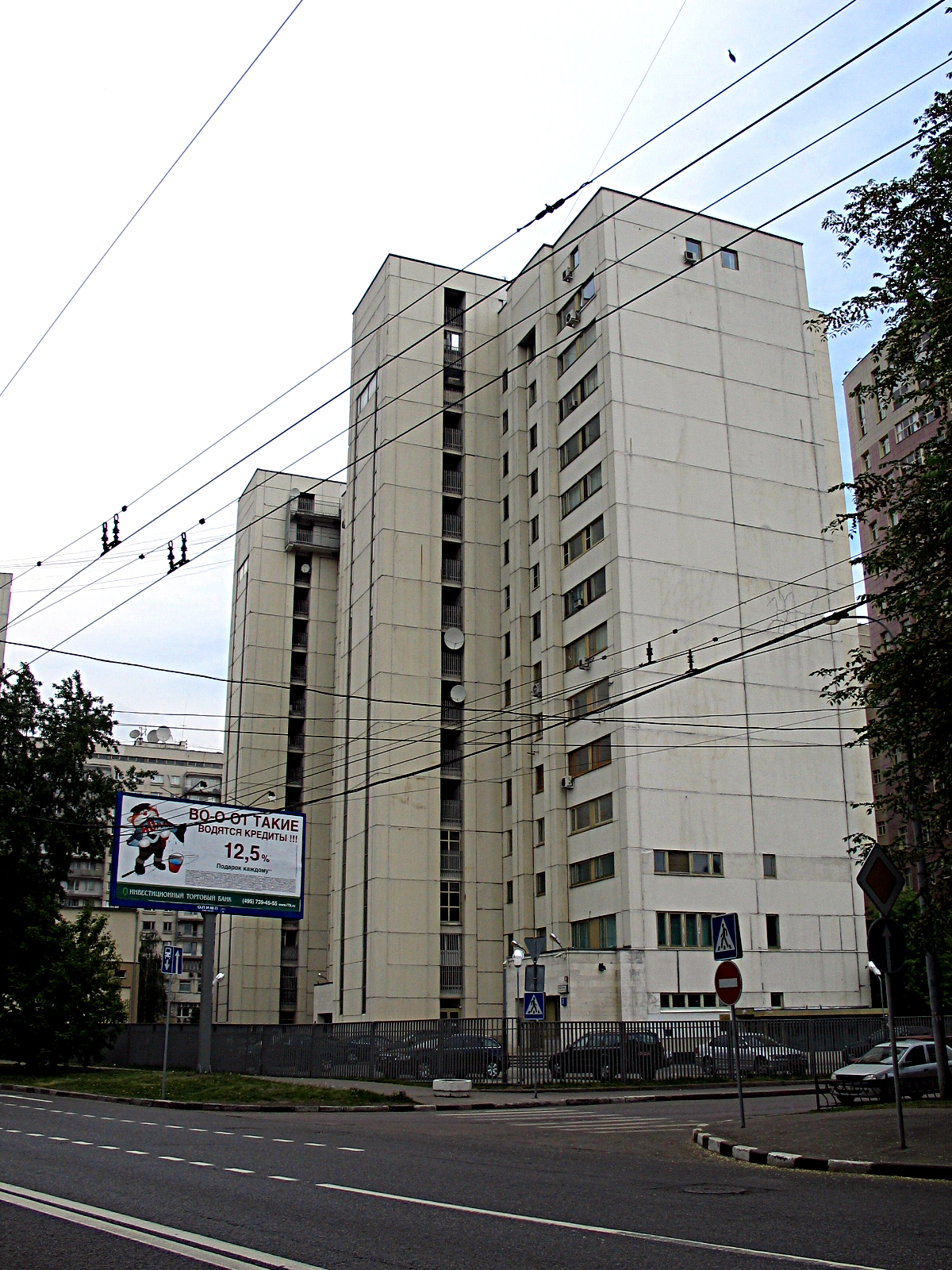 Moscow, Mytnaya Street, 3. Embassy of Albania, Embassy of Montenegro, Embassy of Uruguay.